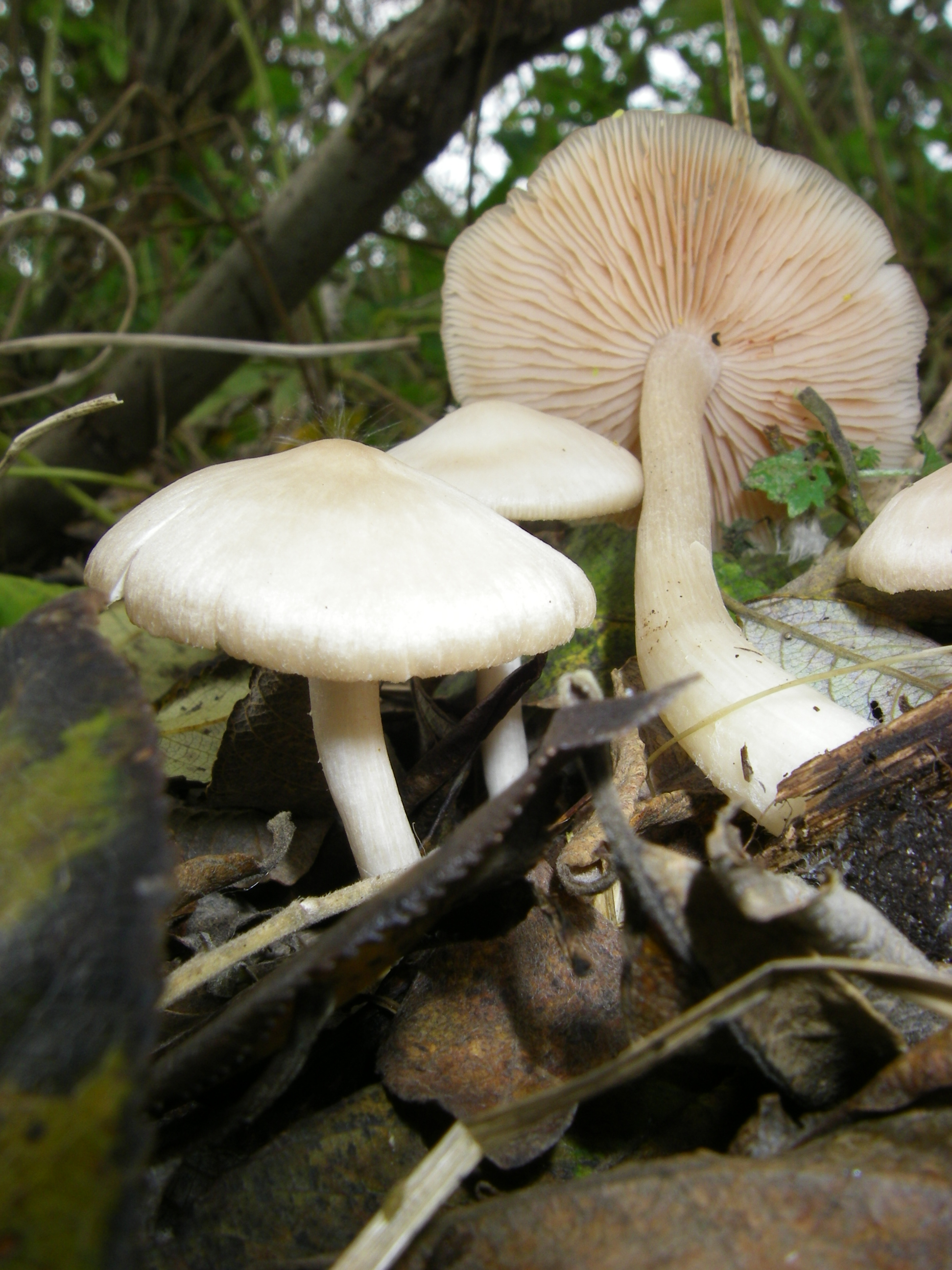 The making of this document was supported by the Community-Budget of Wikimedia Germany.